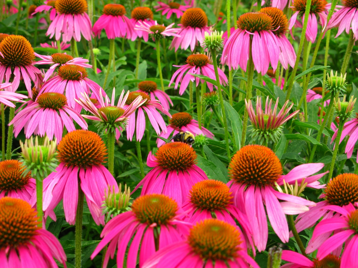 Echinacea purpurea with Bumble-bee